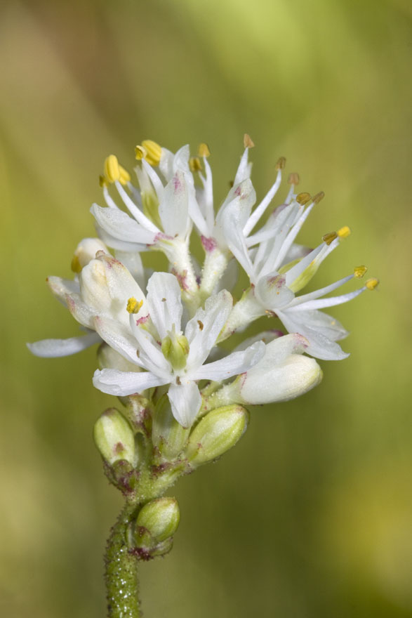 Triantha occidentalis in Butterfly Valley, Plumas County, California, USA